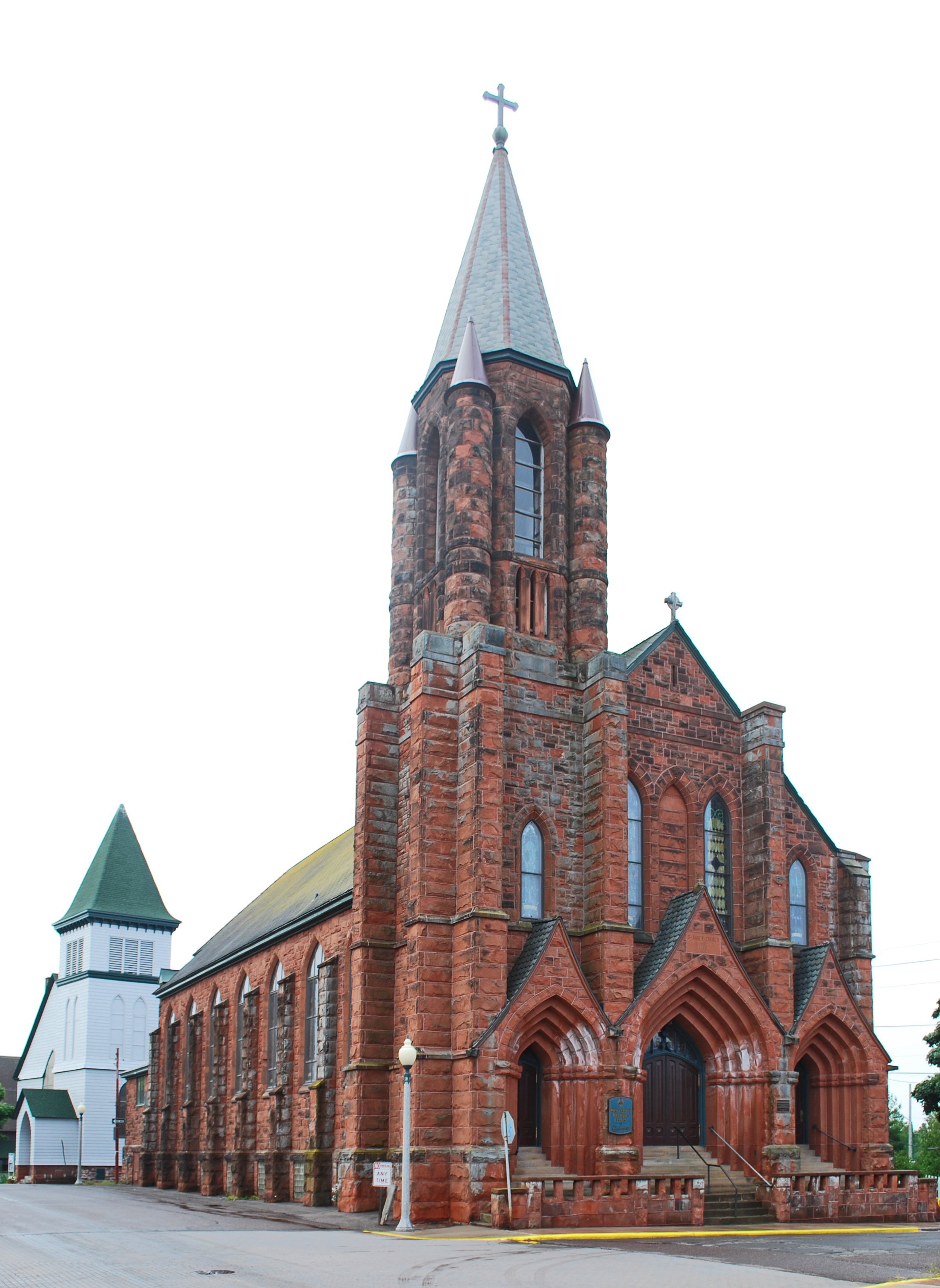 Former Saint Annes Church, now the Keweenaw Heritage Center — in Calumet, within Keweenaw National Historical Park, on the Upper Peninsula of Michigan. The Gothic Revival style brick church was built in 1900, and is on the National Register of Historic Places in Houghton County, Michigan.